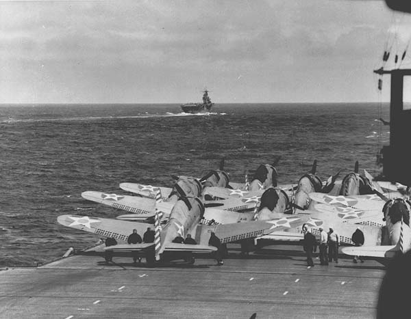 Douglas SBD-2/-3 Dauntless dive bombers and a single Grumman F4F-4 Wildcat fighter on the Enterprise. USS Enterprise (CV-6) (foreground) and the USS Hornet (CV-8) (background) sped towards Japan's Home Islands to launch the Doolittle Raid on 18 April 1942.